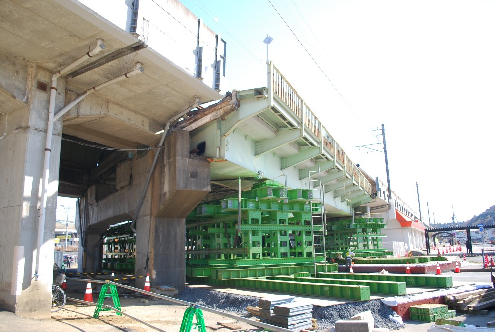 JR Kashima Line Kyuchu Bridge in Kashima City, Japan, whose girder has been partly slipped aside by the Great Tohoku Earthquake on 11 March 2011 but somehow managed to avoid the collapse